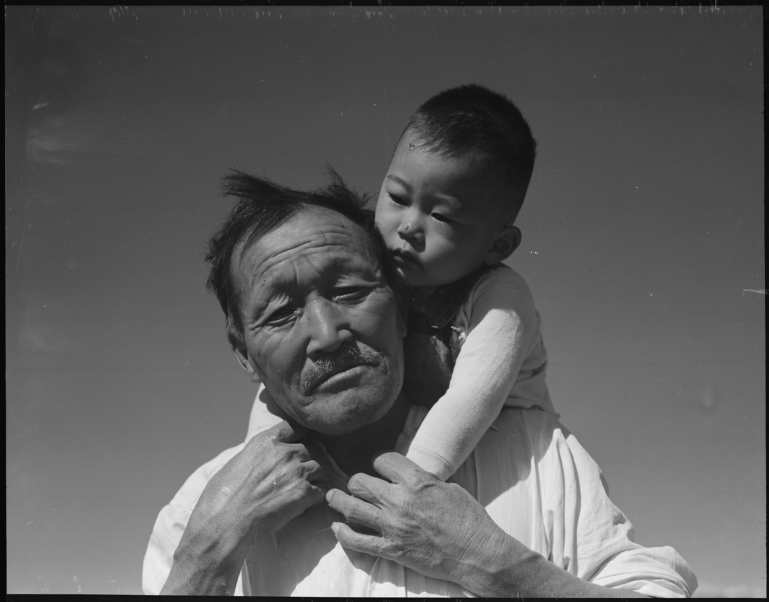 Scope and content: The full caption for this photograph reads: Manzanar Relocation Center, Manzanar, California. Grandfather and grandson of Japanese ancestry at this War Relocation Authority center.